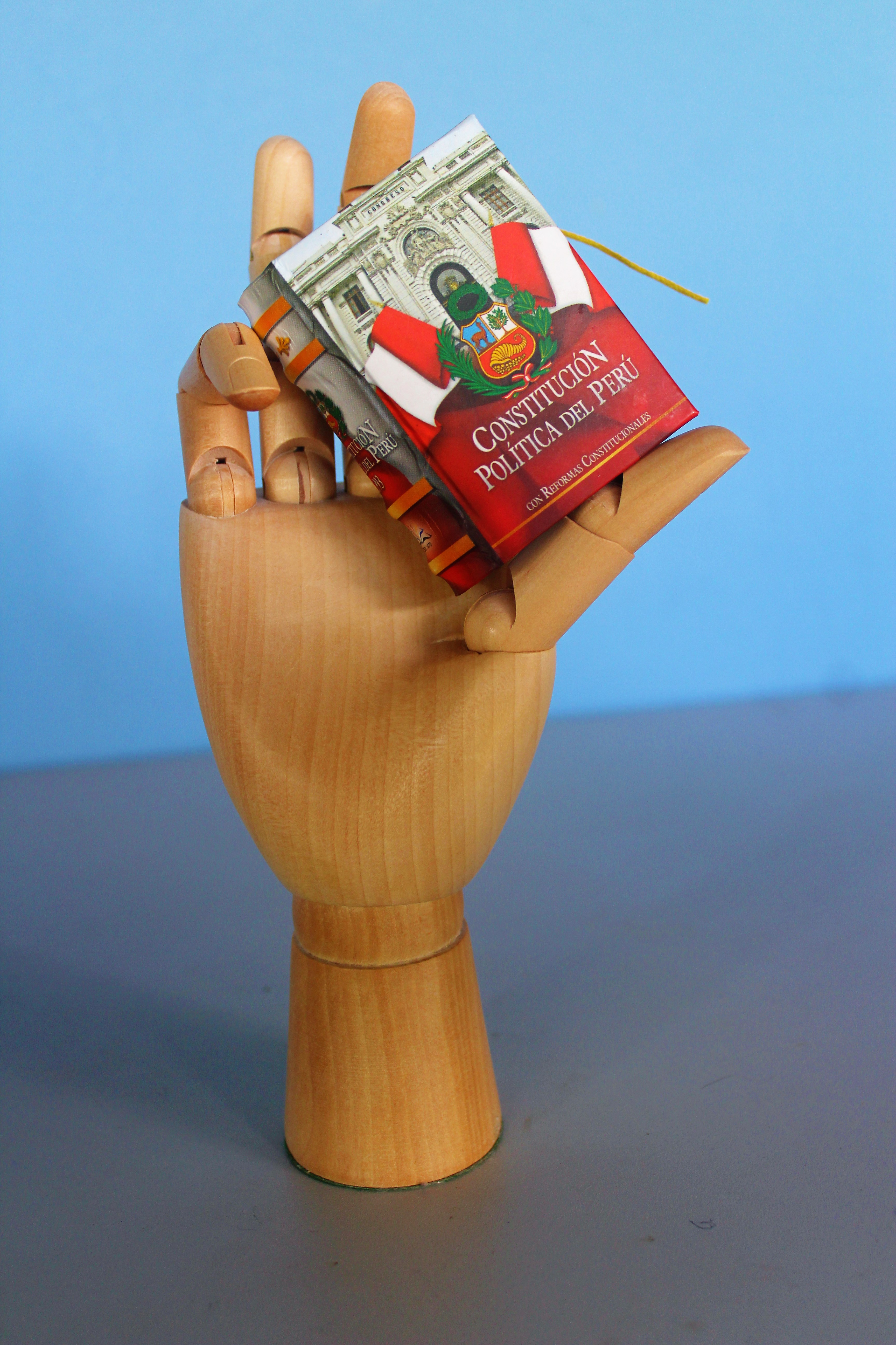 Constitution of Peru in miniature book.